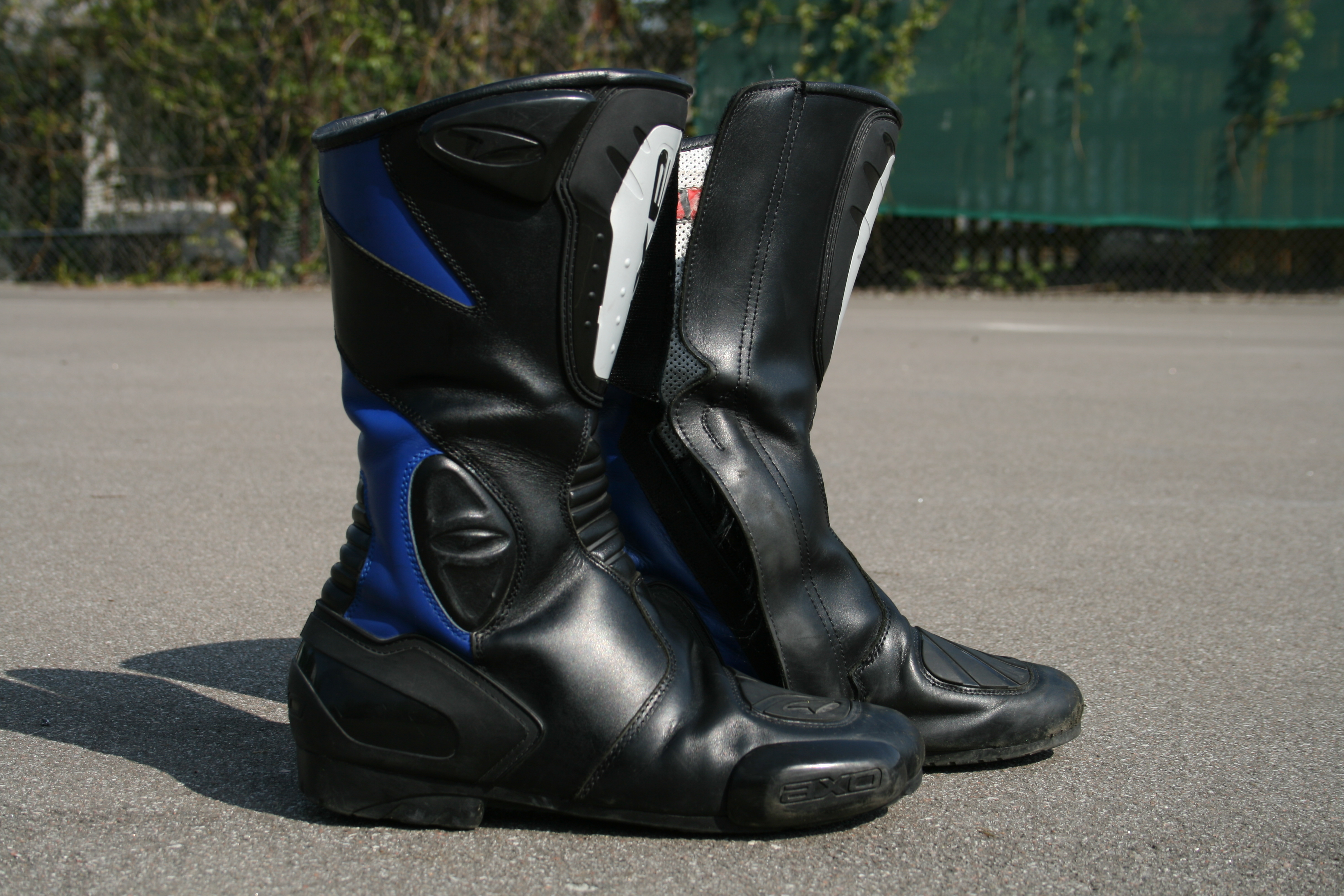 A pair of touring boots made by AXO.